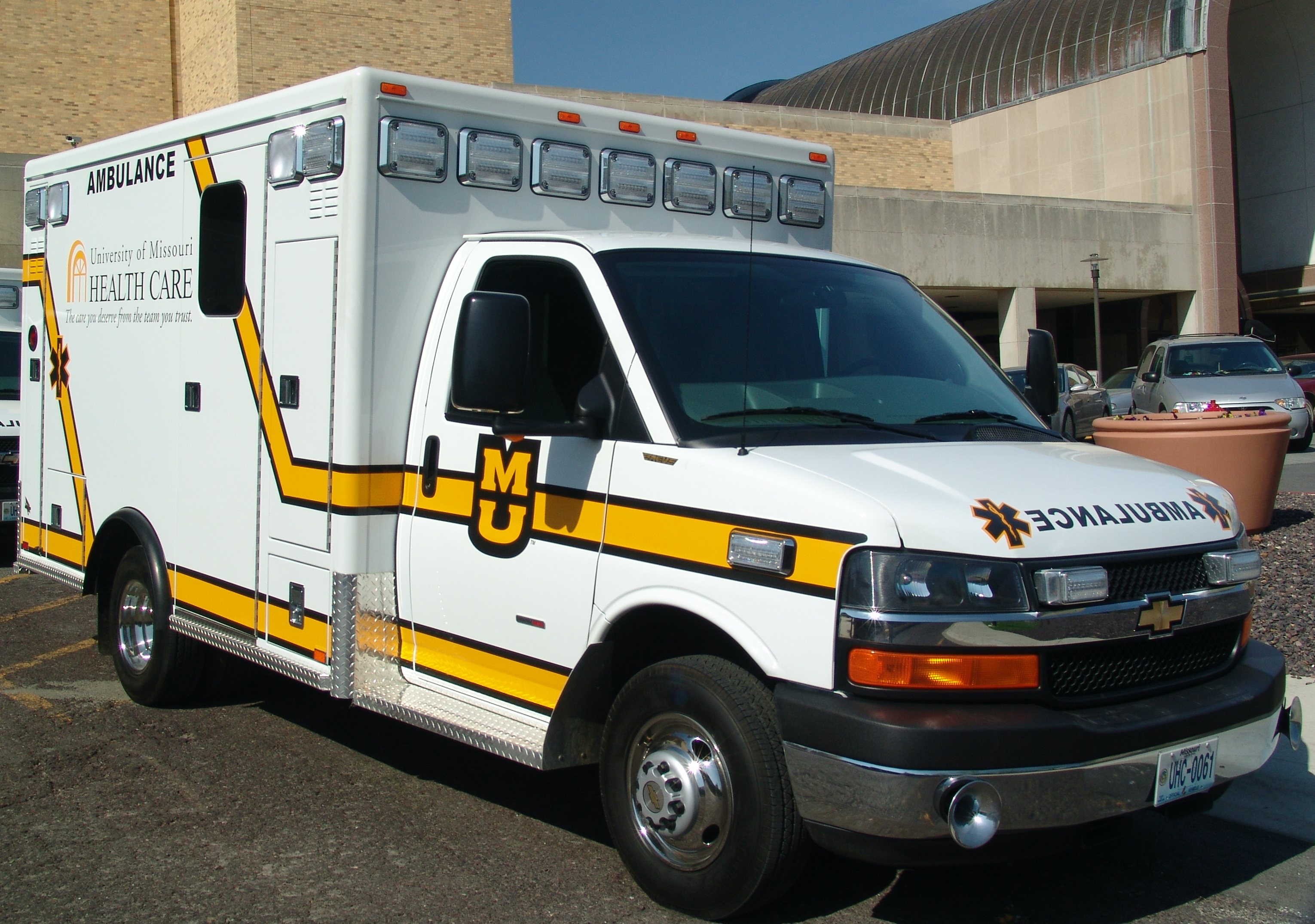 A photo of a UHC ambulance service ambulance, 2010 AEV on Chevy Duramax chassis.